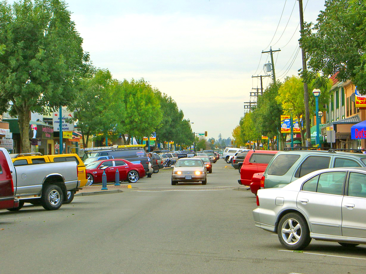 Fraser Highway in Langley City, British Columbia, Canada. A one-way section with many shops and restaurants.